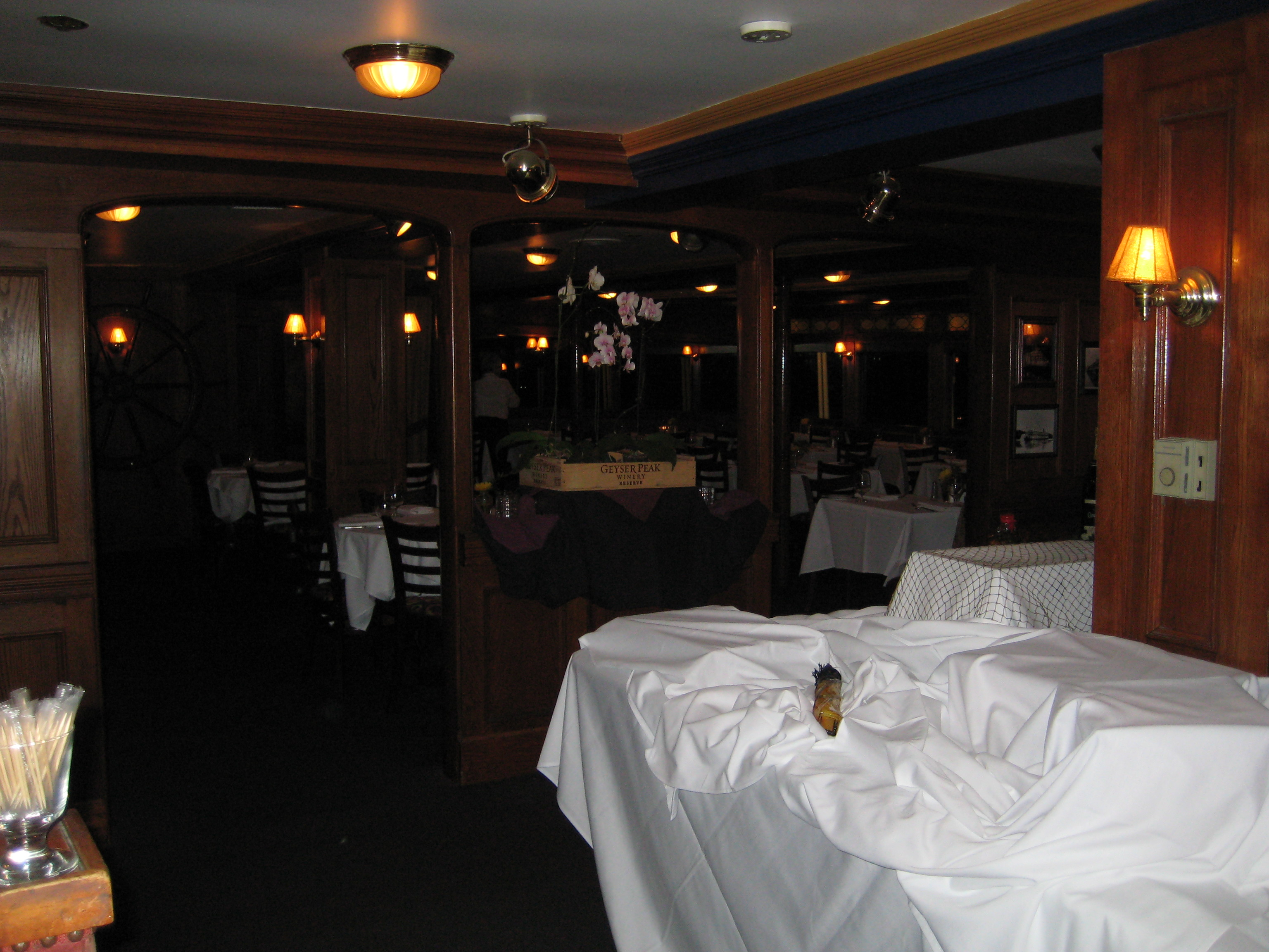 The Delta King dining salon / restaurant